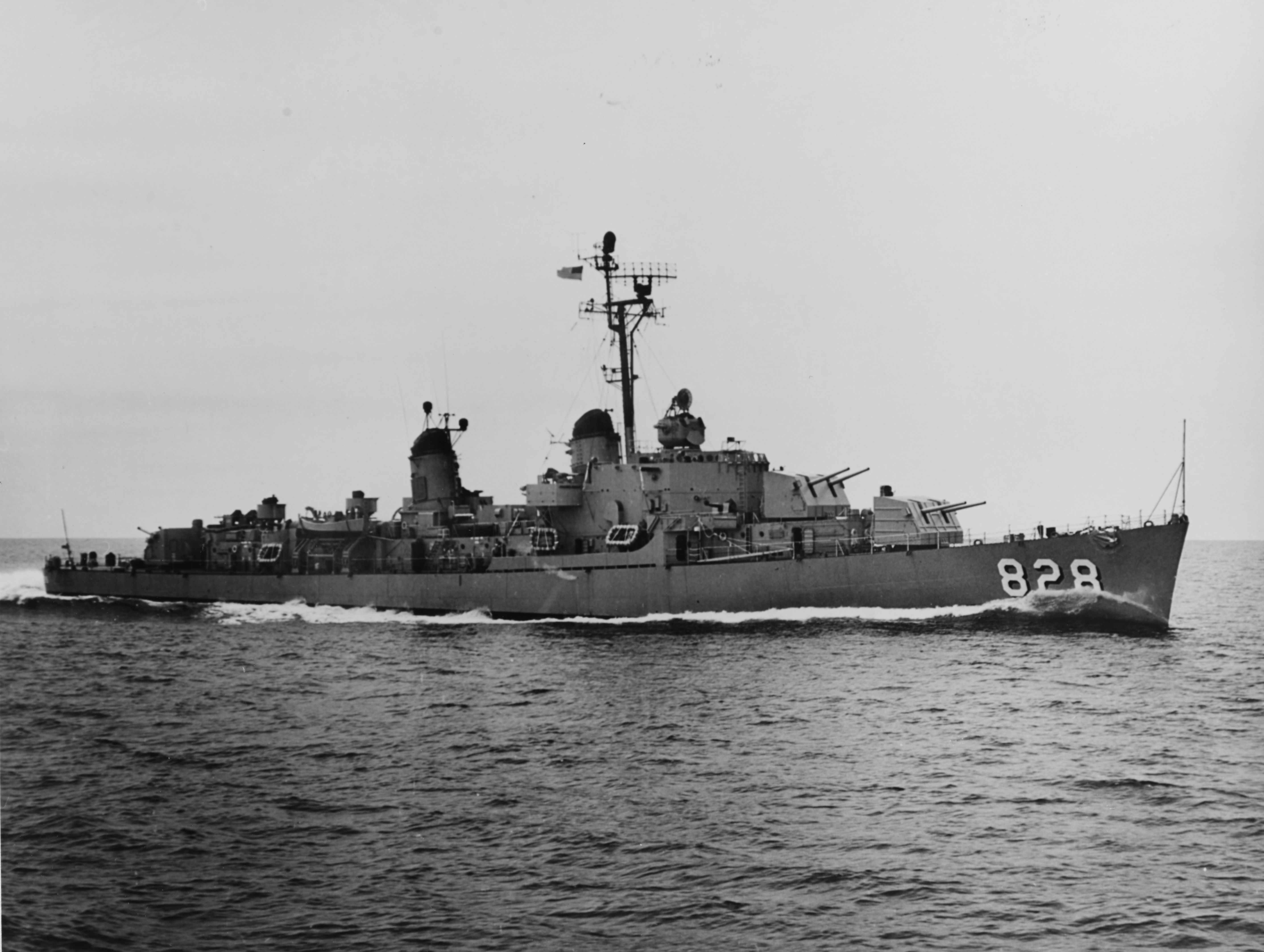 The U.S. Navy destroyer USS Timmerman (DD-828) underway off Newport, Rhode Island, on 10 July 1953. Note the various non-standard features of this experimental destroyer.